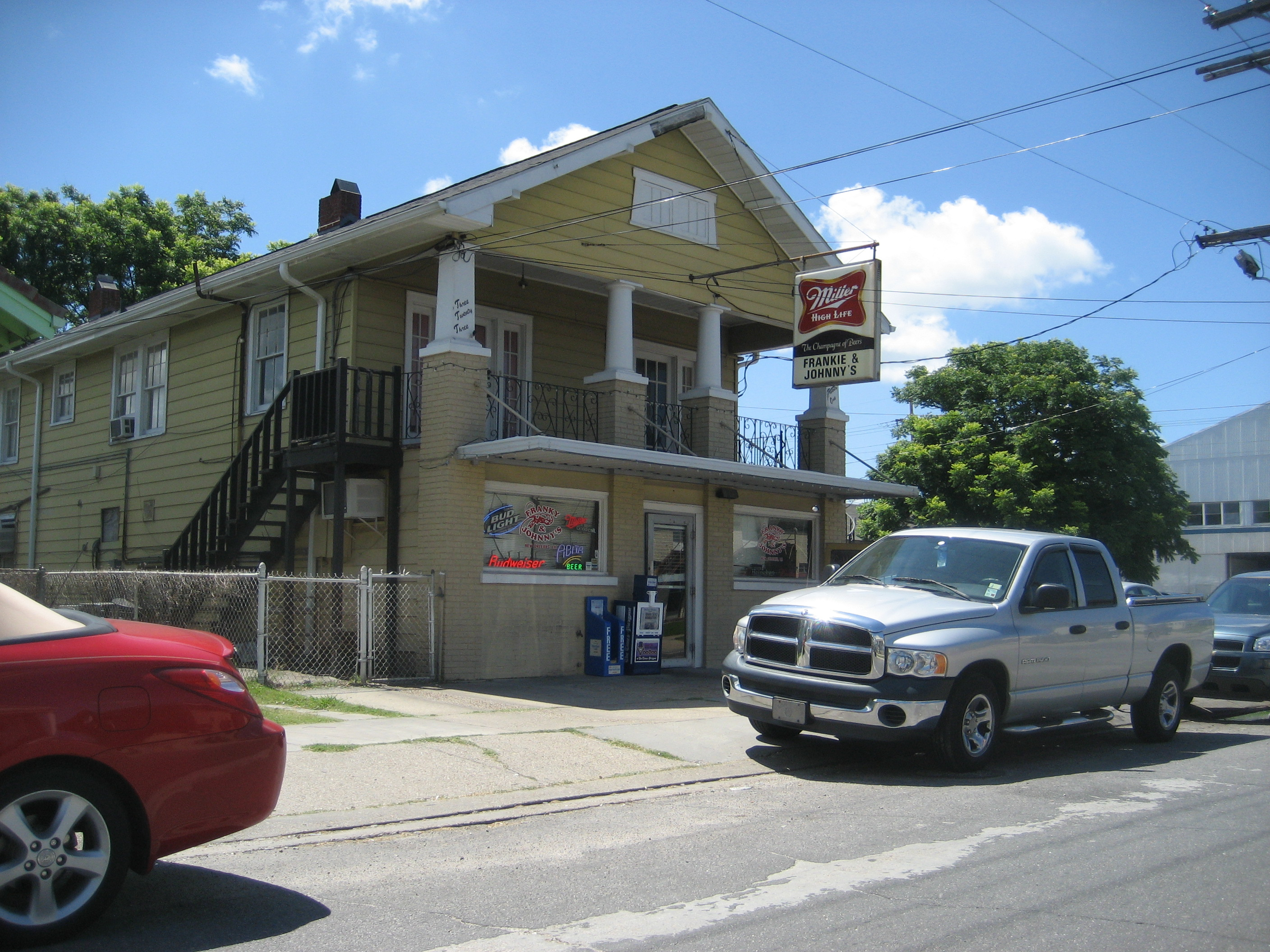 New Orleans: "Frankie & Johnny's" restaurant, Uptown.